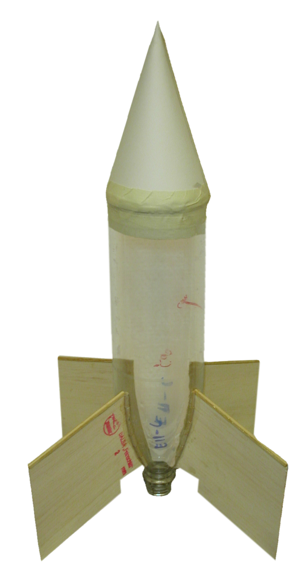 Water rocket for a project for the Aerospace Engineering study. The bottle part is semitransparent. This file will not render correctly in Microsoft Internet Explorer 6 and lower.